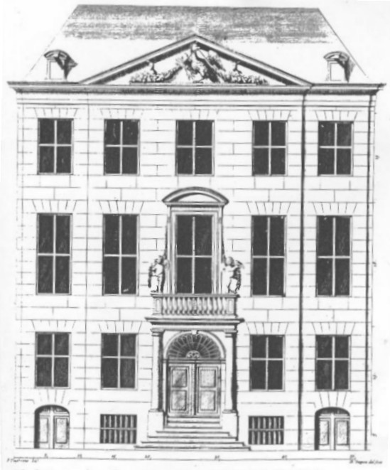 Design Herengracht 466, "the Eagle", by Philip Vingboons